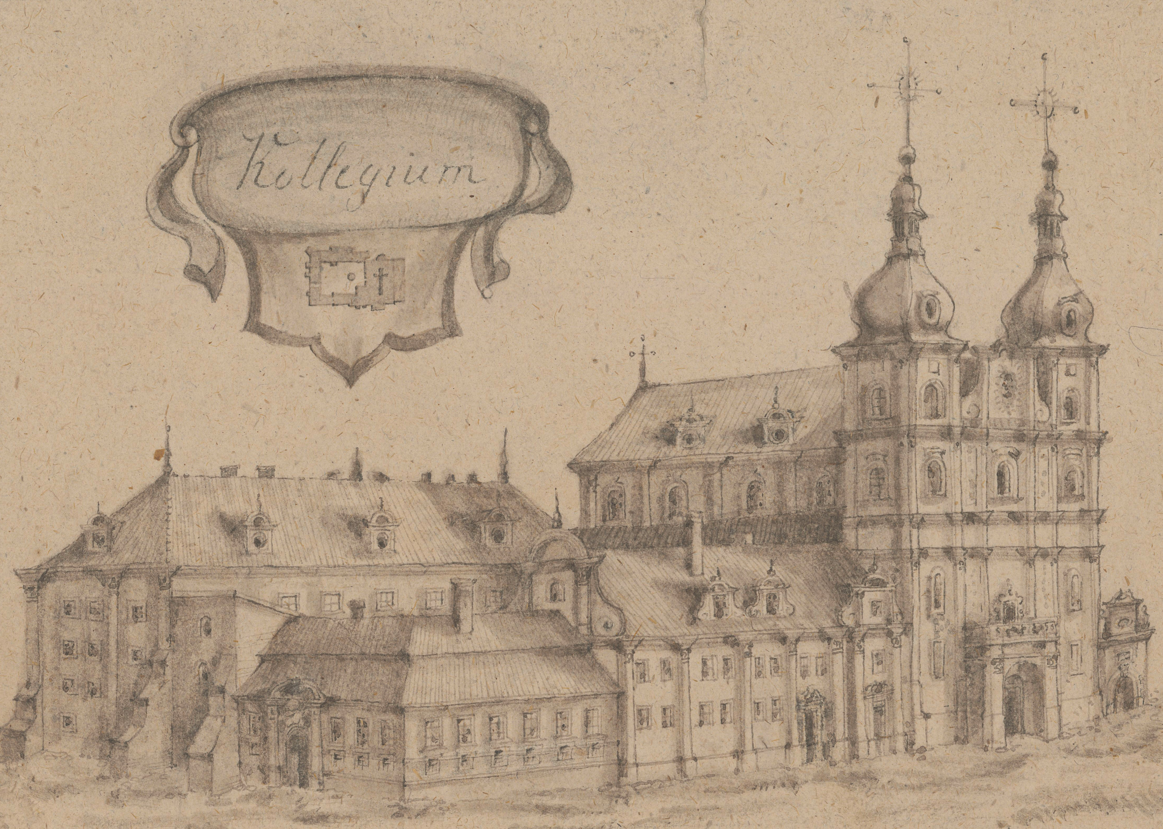 Former church and monastery in Piotrków Trybunalski in Poland, early 19th century.